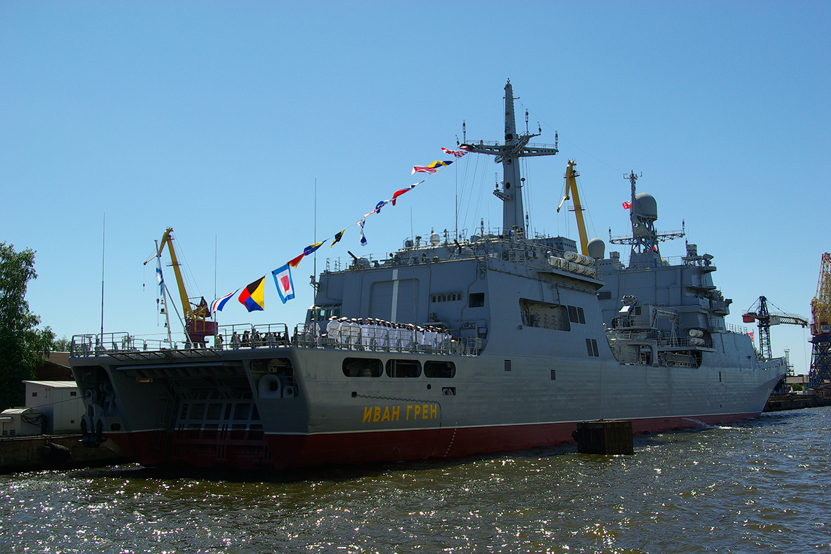 Ivan Gren landing ship.